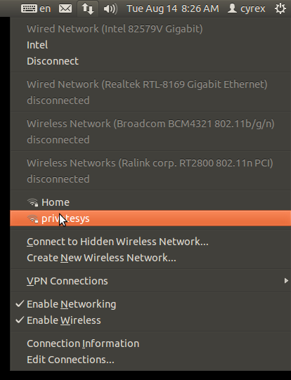 Version of Network Manager in Ubuntu 12.04